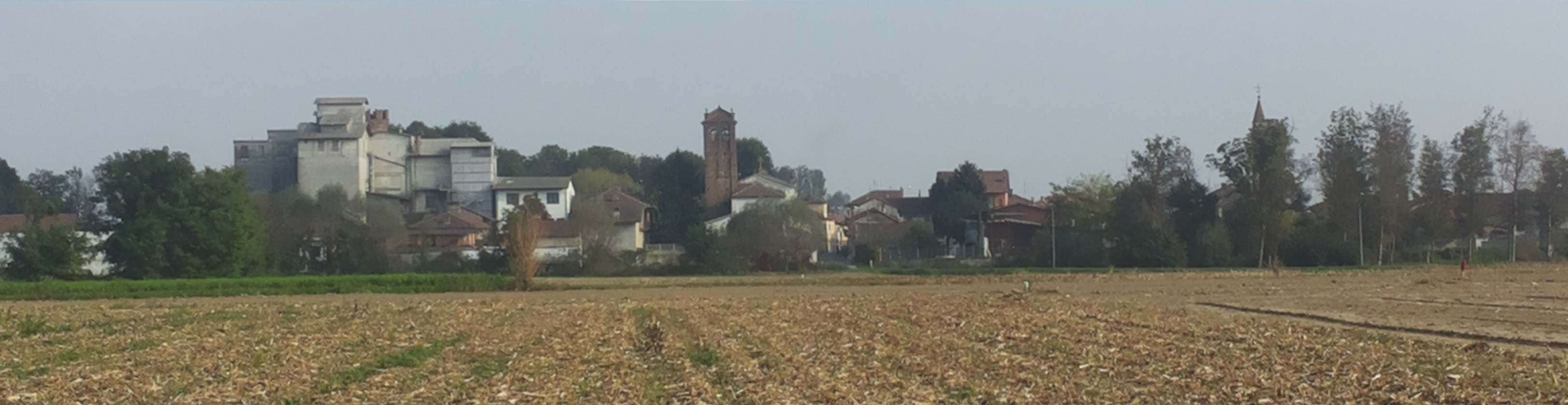 The Panorama of Faule